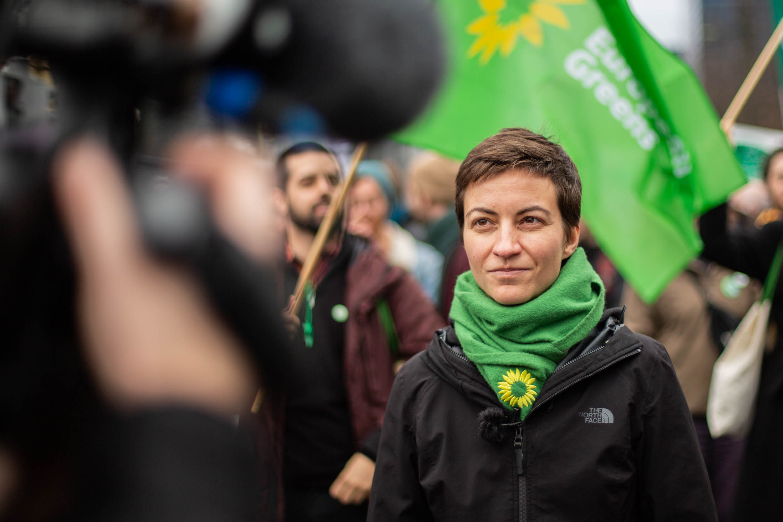 Ska Keller at the "Claim the Climate" march (Brussels, December 2018)